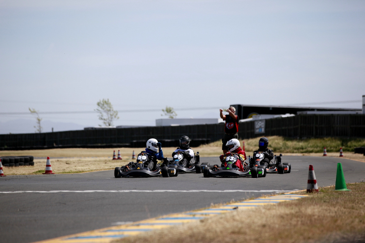 The Starting Grid for the Red Line Oil Karting Championship Race 2 in Sonoma, CA April 2013